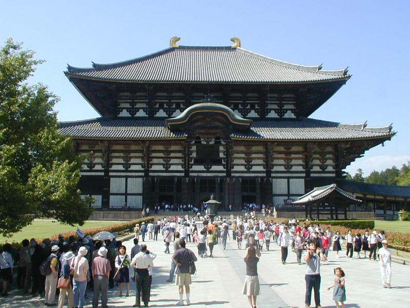 Todaiji, Nara, Japan.